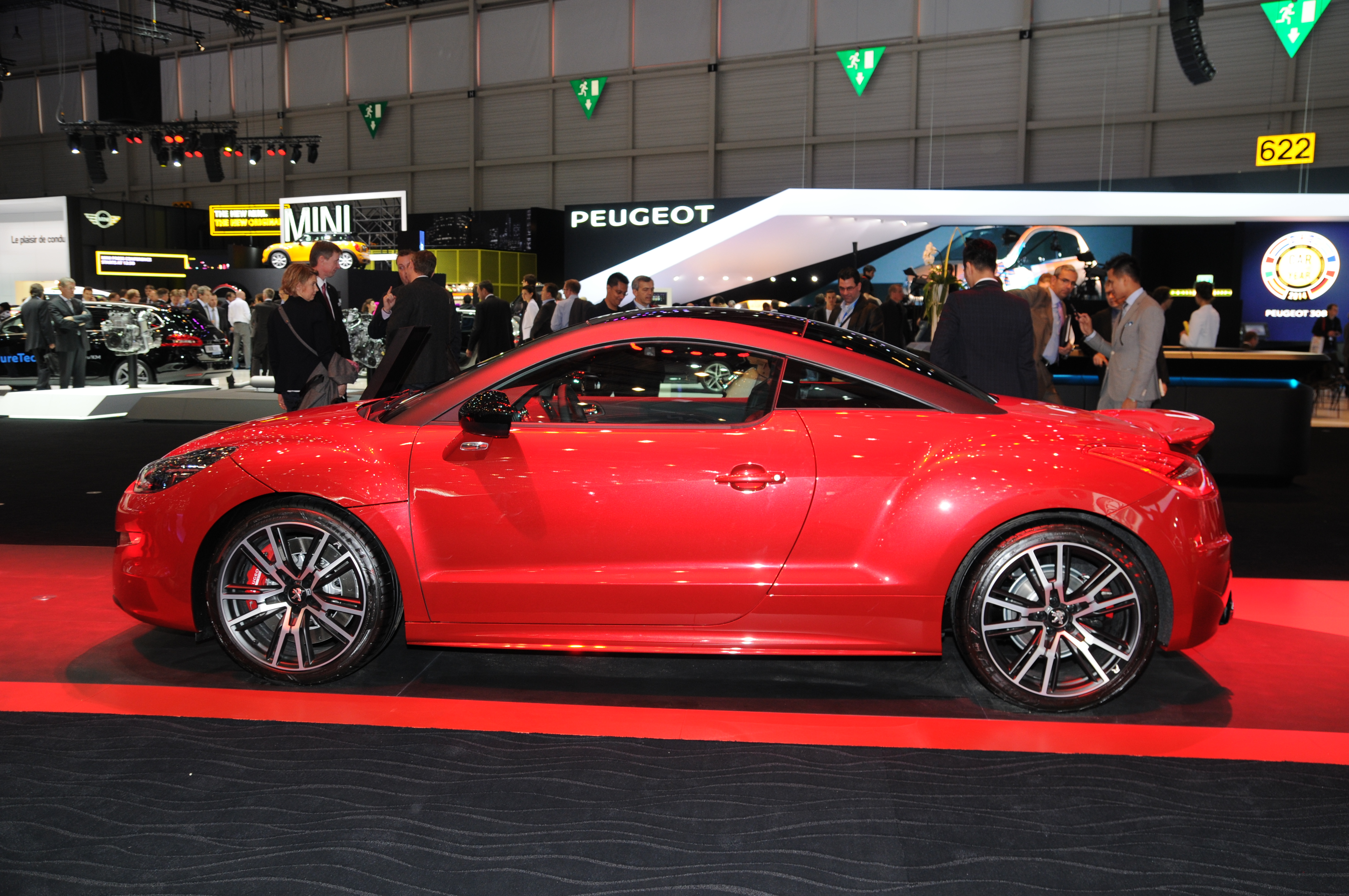 Geneva Motor Show 2014 (photo taken on the first press day)